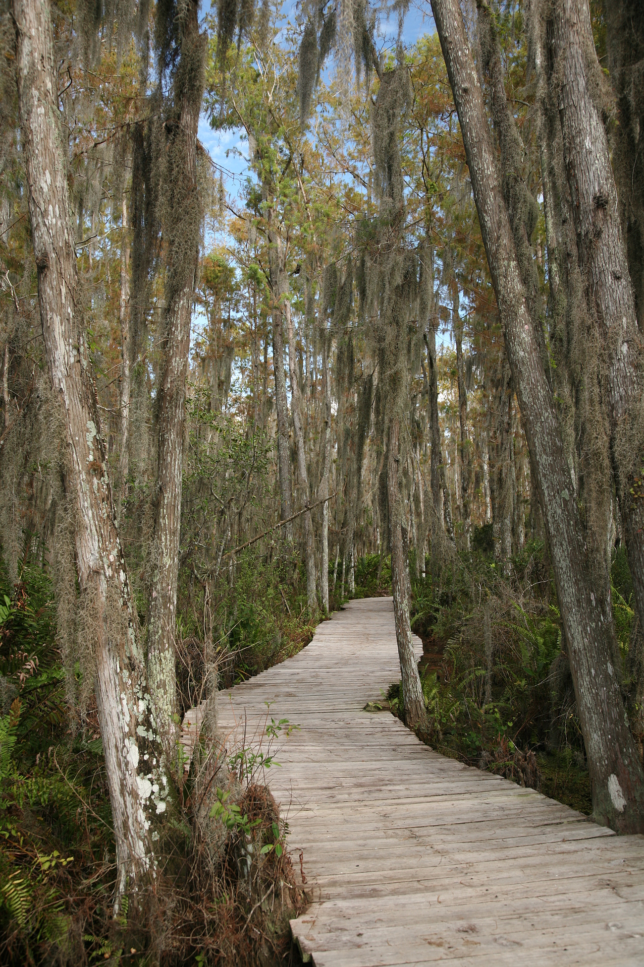 Cypress Swamp boardwlak at Loxahatchee National Wildlife Refuge, Florida